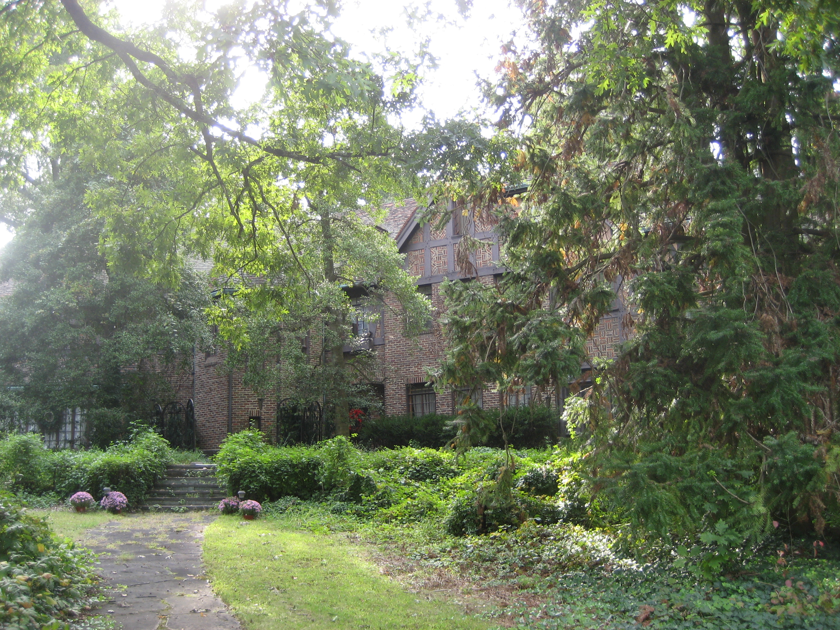 Hillside